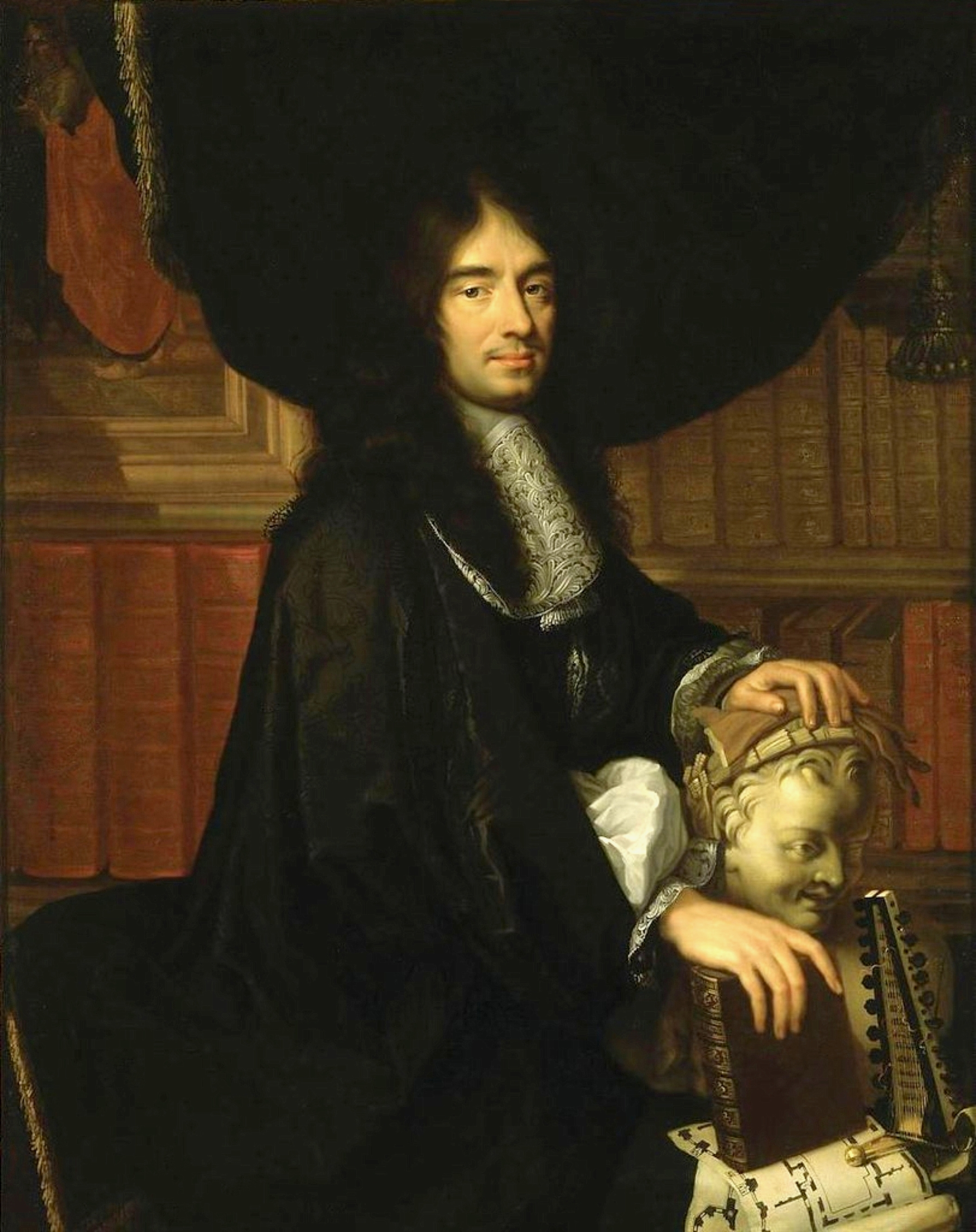 Portrait of Charles Perrault (1628-1703), a French architect (oil on canvas; 1.34 x 1.00 m). Lallemand presented this portrait on 13 May 1672, along with his Portrait of Gédéon Berbier du Mets, in order to gain admittance to the Academy. The names of the sitters were communicated to him on 25 April 1671, so the painting dates to this period. Lallemand worked from a 1665 painting of Charles Perrault by Charles Le Brun (engraved by Étienne Baudet in 1675).